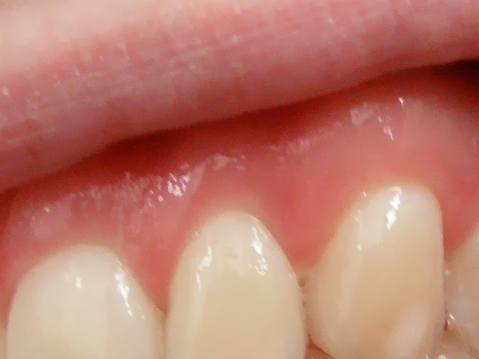 Photo of mild dental fluorosis, or evidence of trauma to deciduous teeth while permanent teeth were still forming. (Subject never had braces, which can be another cause for white dots or rings in the center of the teeth.) The condition appears here as white spots on both central incisors (front teeth) and upper left canine tooth, and less noticeably in the upper left lateral incisor.